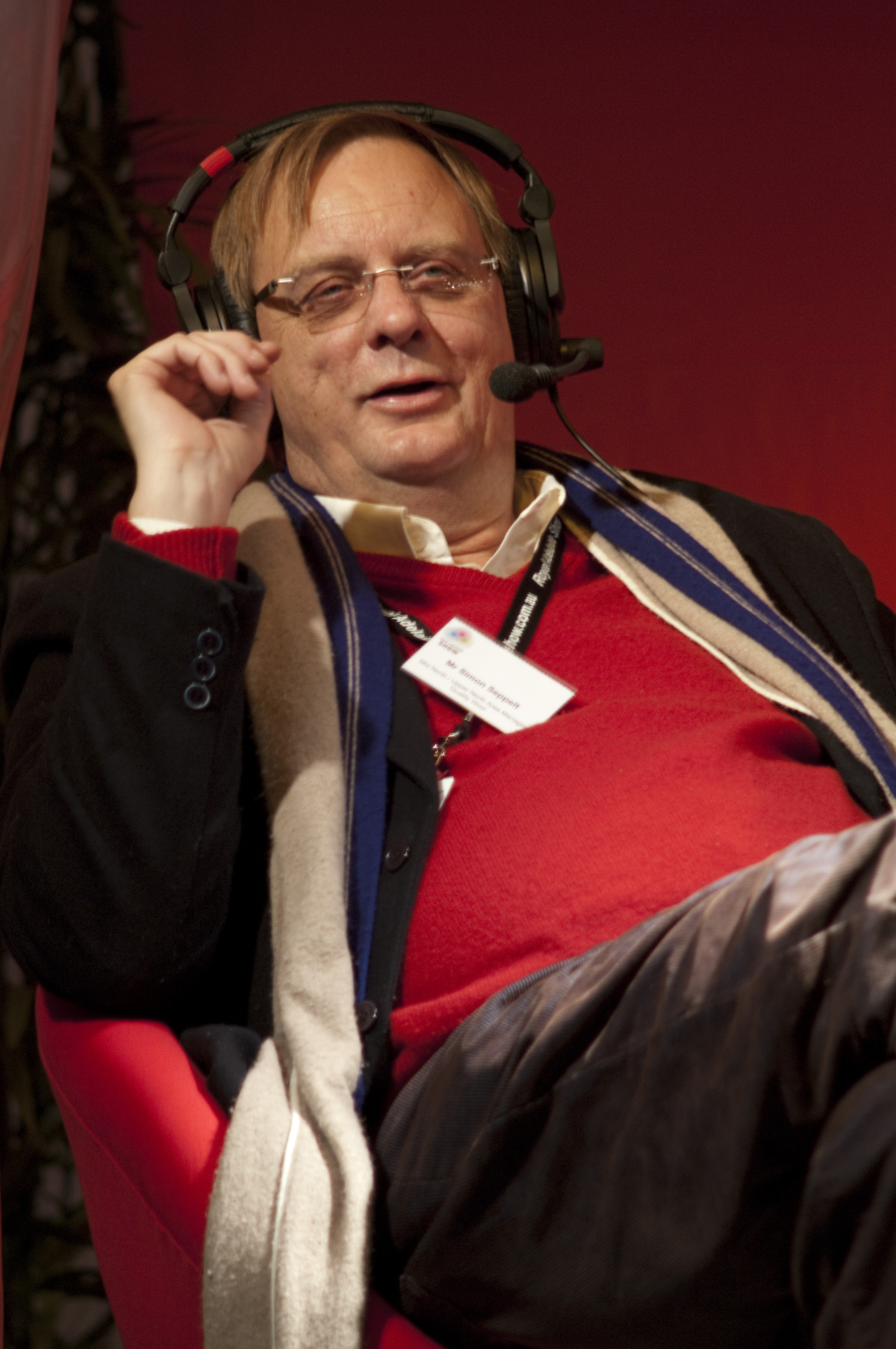 A laid-back Peter Goers performing a live broadcast for the Australian Broadcasting Corporation at the Royal Adelaide Show, 2009.